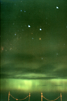 Aurora australis and Southern Cross, viewed from Dunedin, New Zealand (46˚ S).